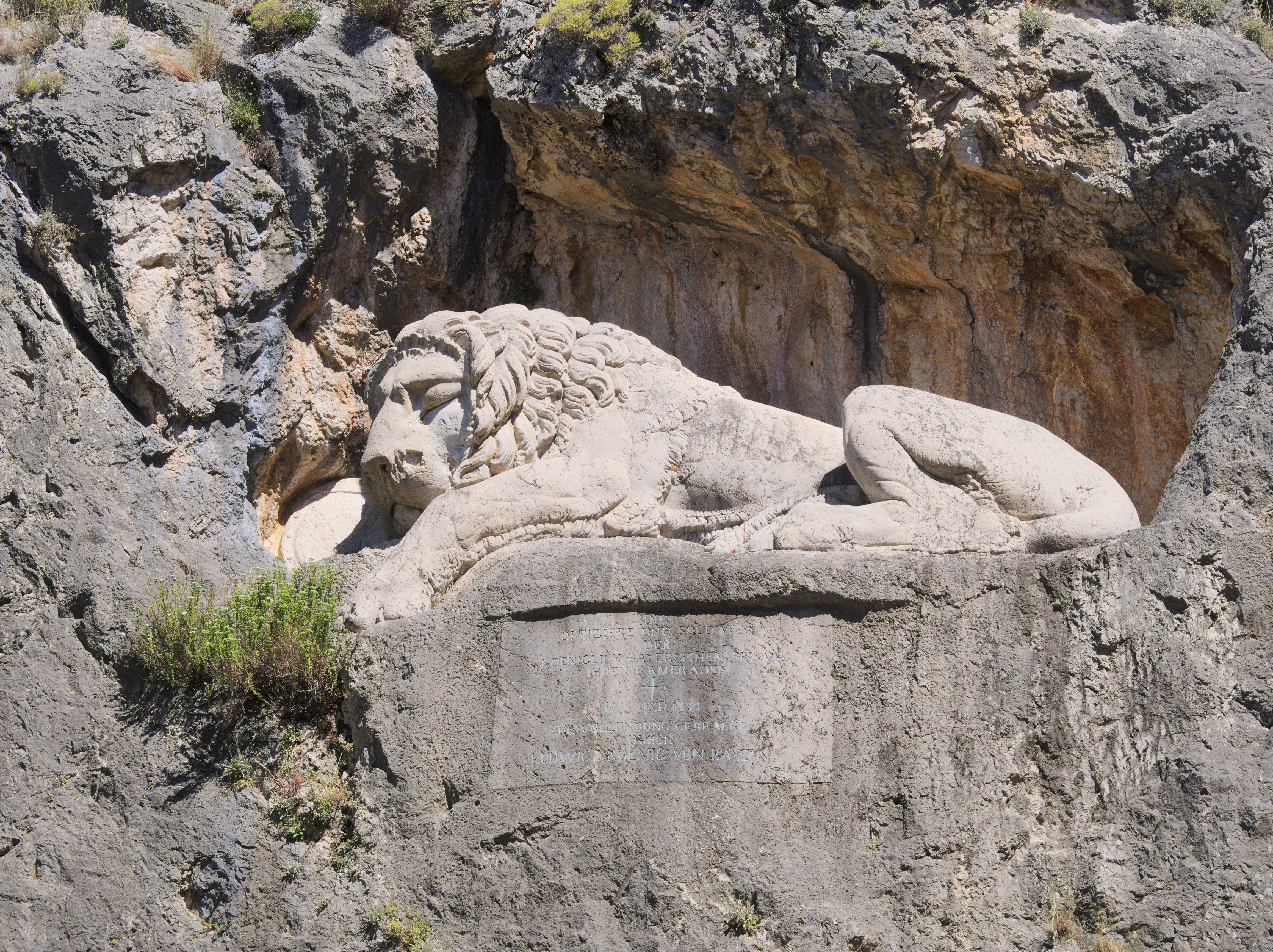 The Lion of Bavaria carved in 1840-1841 as a memorial of the Bavarian soldiers of King Otto who died of typhoid in 1833. Work of Christian Siegel (1808-1883).